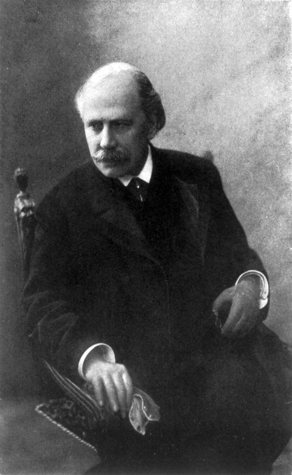 Jules Massenet, French composer. Reproduction of photo.